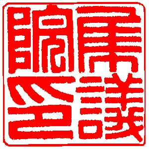 Imprint of the Shugiin.